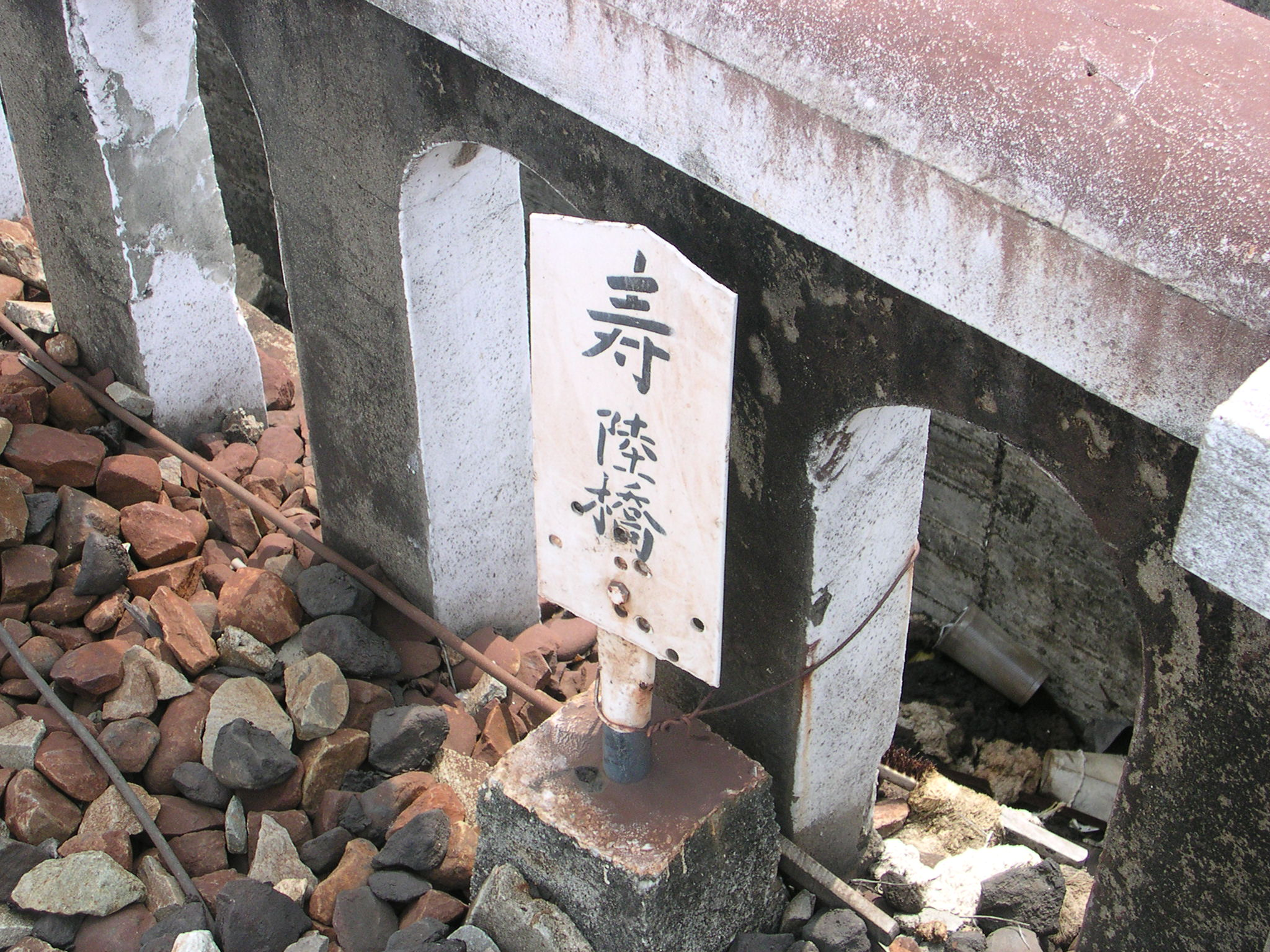 "Kotobuki Rikkyu" Railway Bridge, Tainan, Taiwan